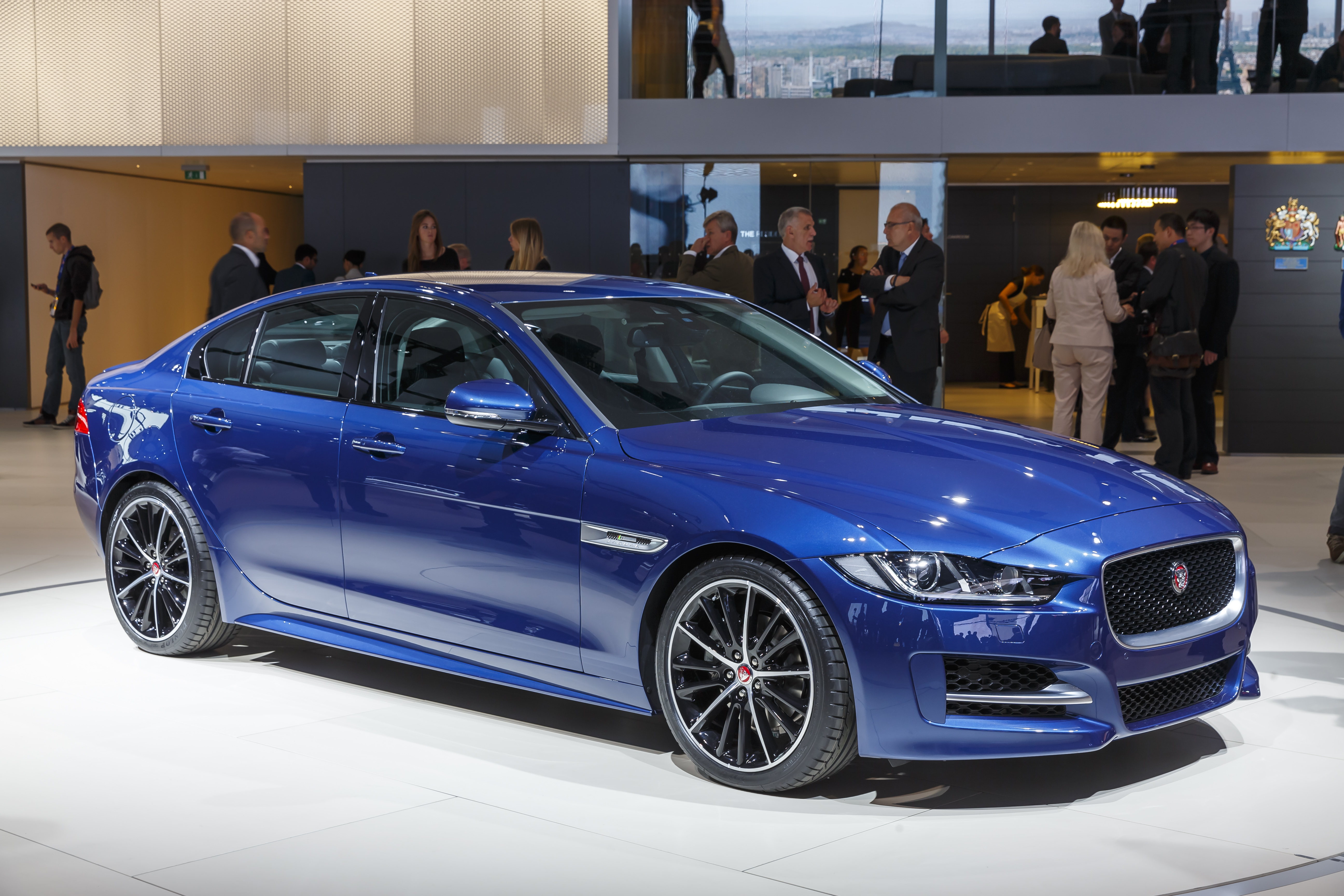 Jaguar Land Rover press conference the 2014 Paris Motor Show. Reinforcing its commitment to product development and global expansion, Jaguar Land Rover, the UK's leading manufacturer of premium vehicles showcased its breakthrough Land Rover Discovery Sport and Jaguar XE models at the Paris Auto Show.